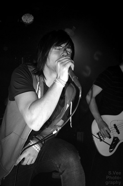 Jordan Witzigreuter of The Ready Set live in Hollywood, CA.